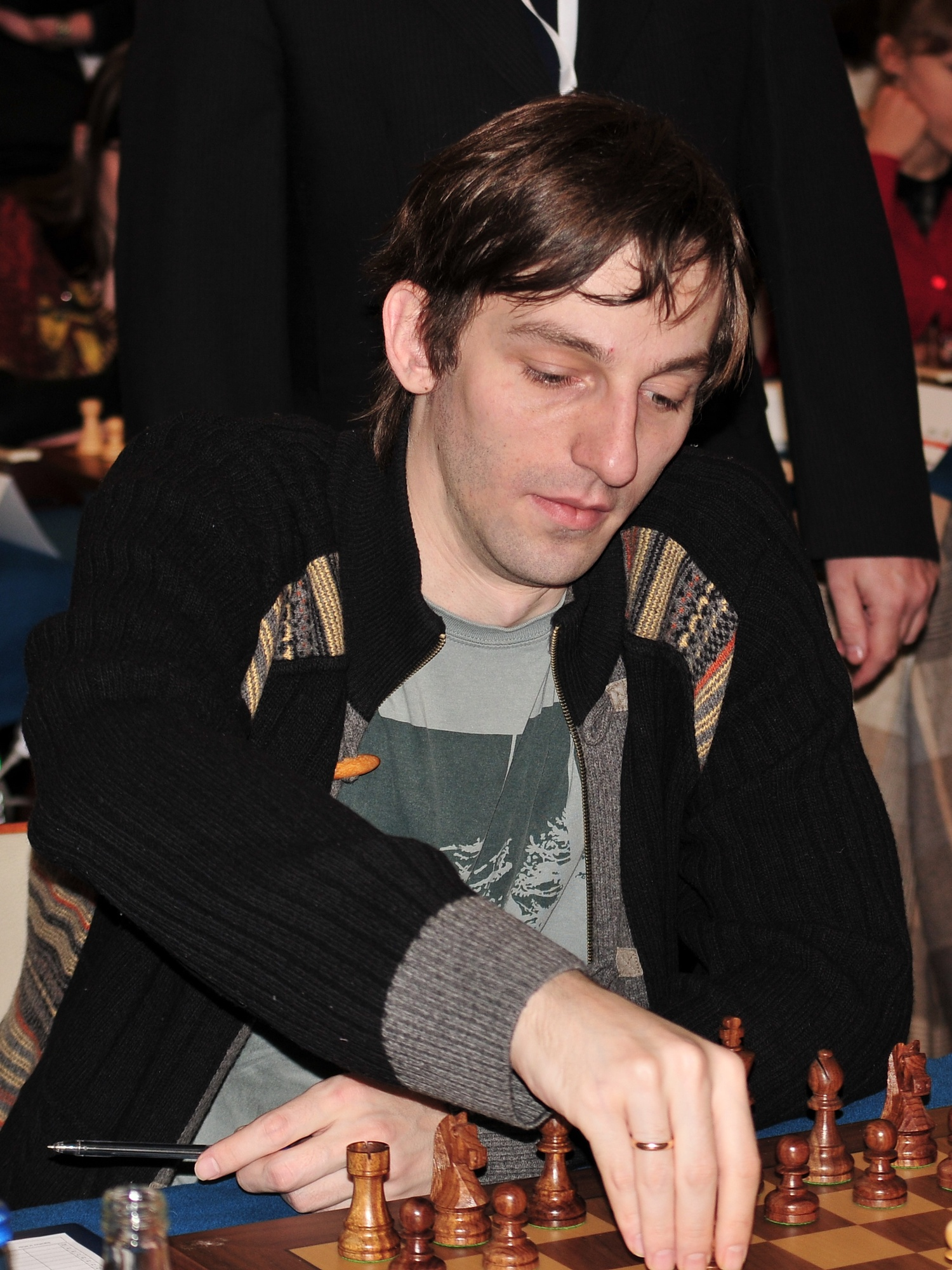 GM Alexander Grischuk, European Chess Team Championship Warsaw 2013